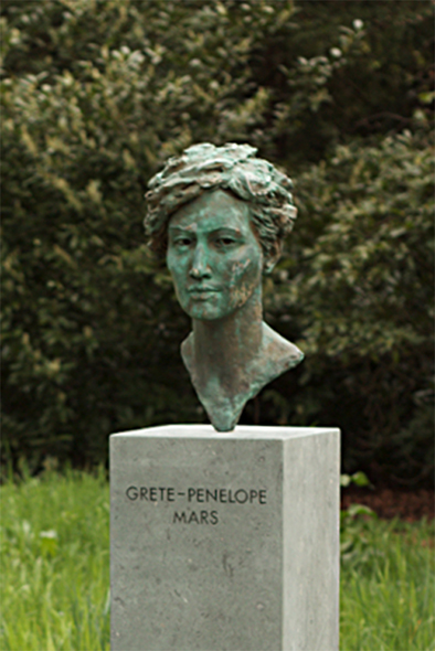 Grete-Penelope Mars, Büste aus der Installation Some at times cast light, welches die Künstlerin für das Detroit-Projekt schuf